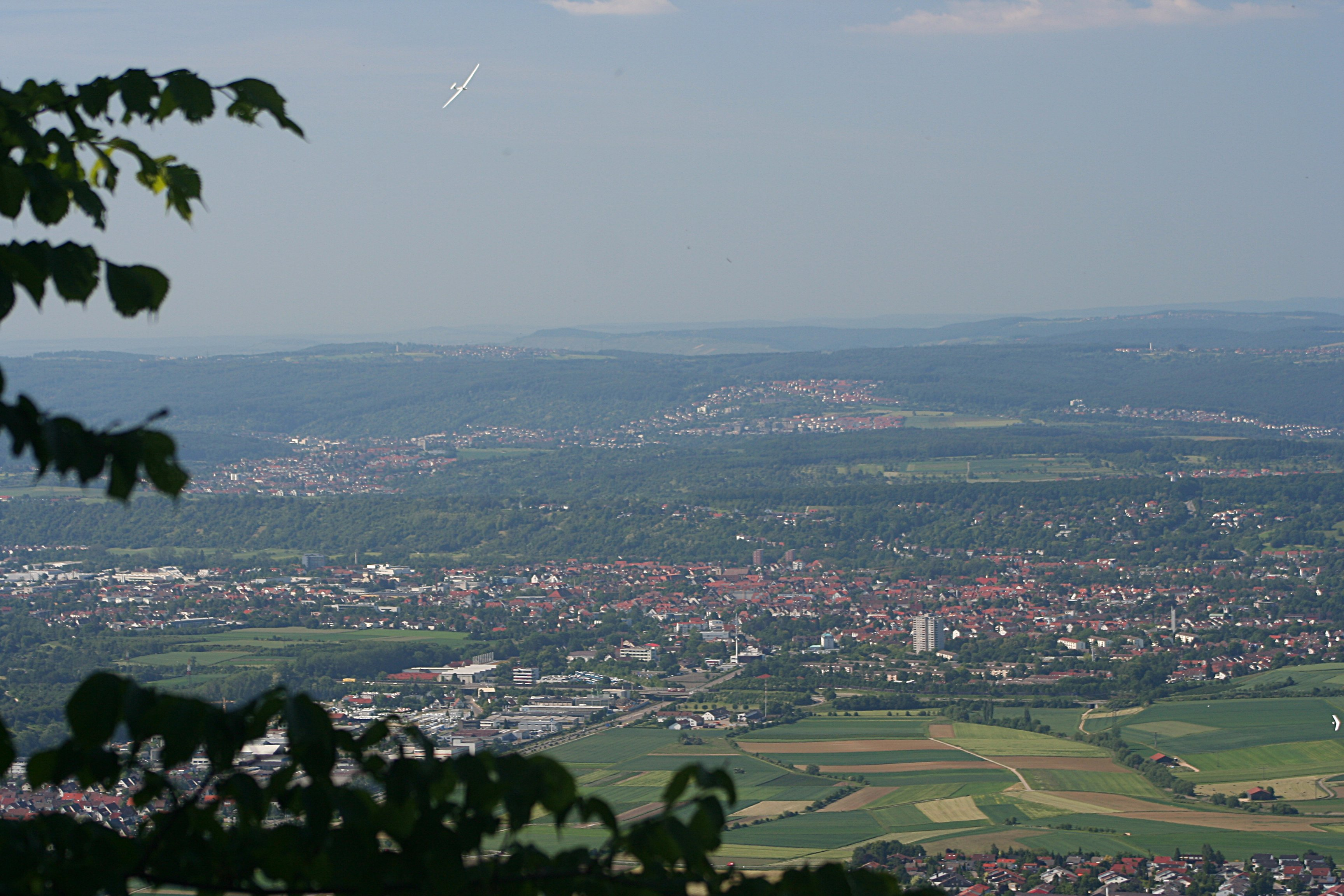 View of Kirchheim u.Teck. Author: Jan Rechenberg, Roman Fietze.